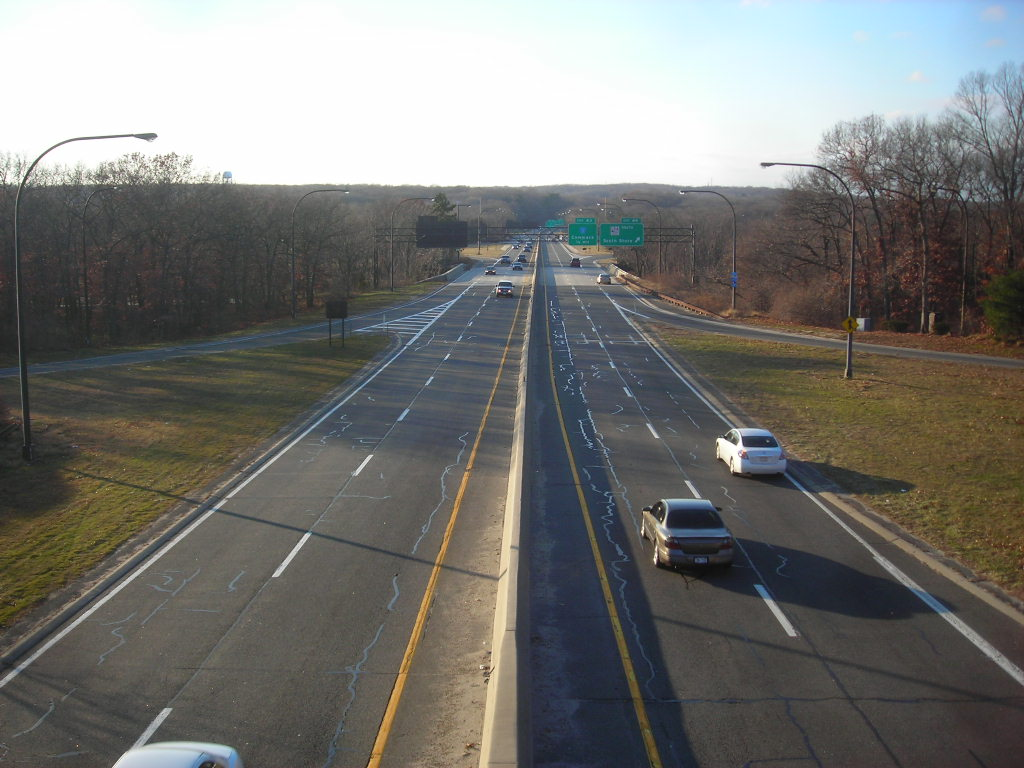 The Northern State Parkway as seen from exit 45 in Commack, New York.